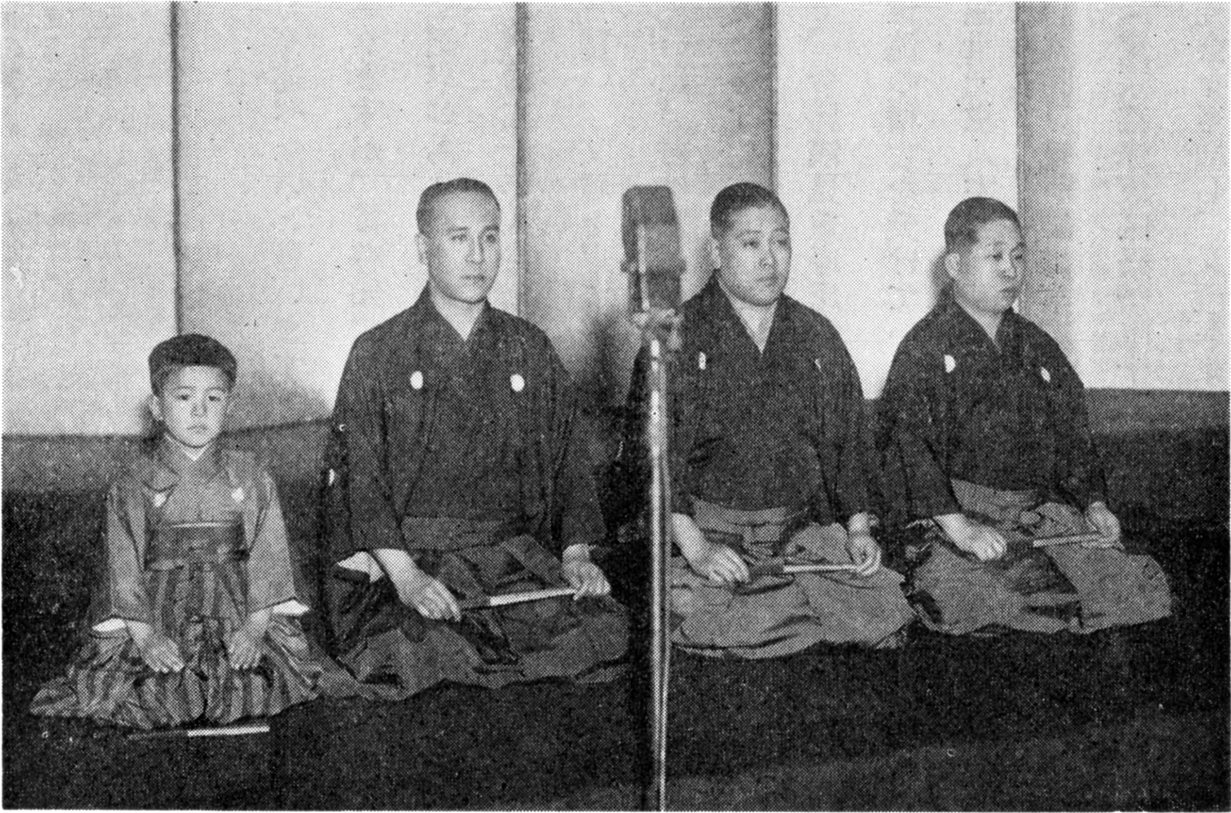 Japanese No actor KANZE Motomasa(1930 - 1990), KANZE Sakon(1895 - 1939), FUJINAMI Shisetsu, and SHIMAZAWA Keiji